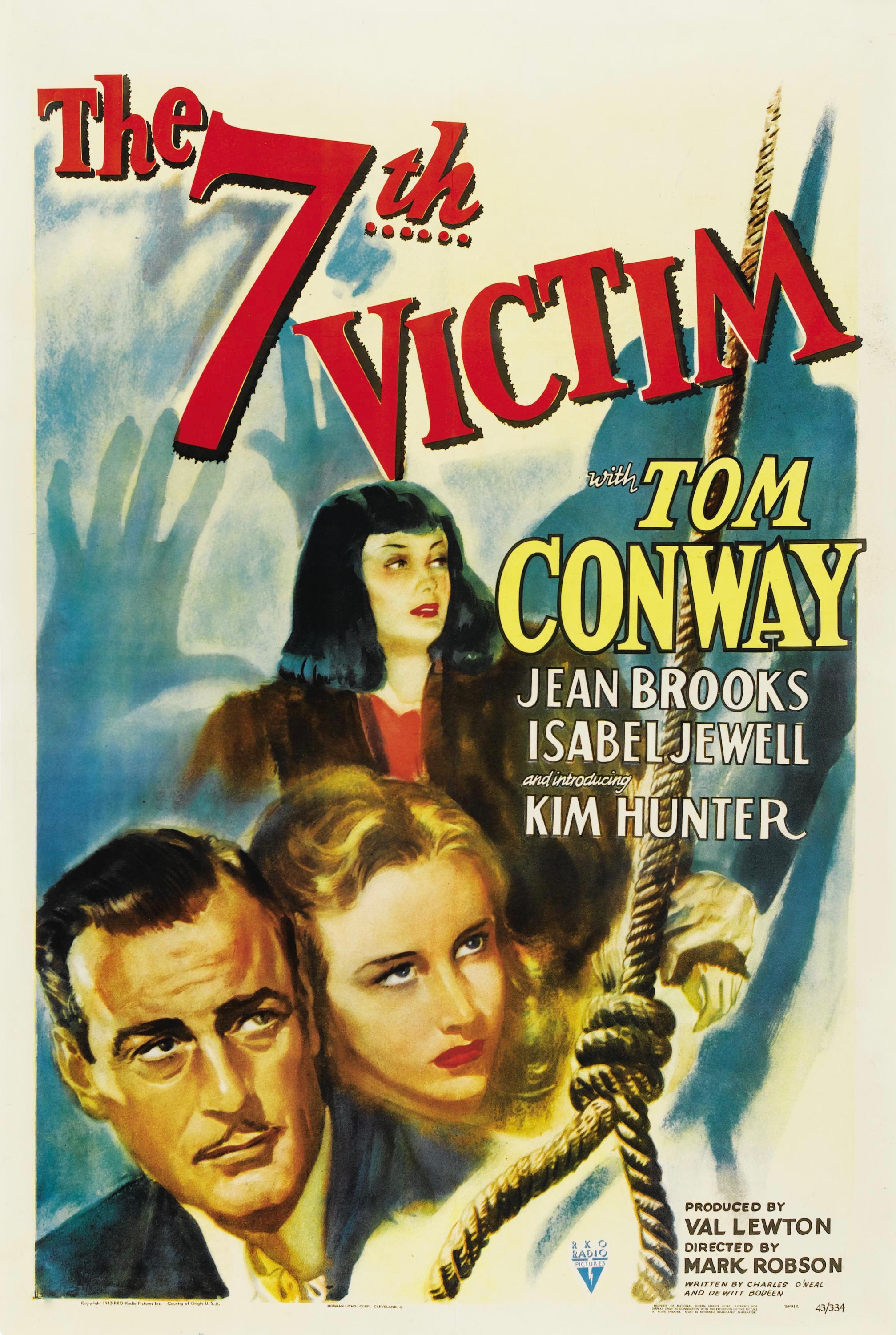 The Seventh Victim one-sheet, RKO (1943)